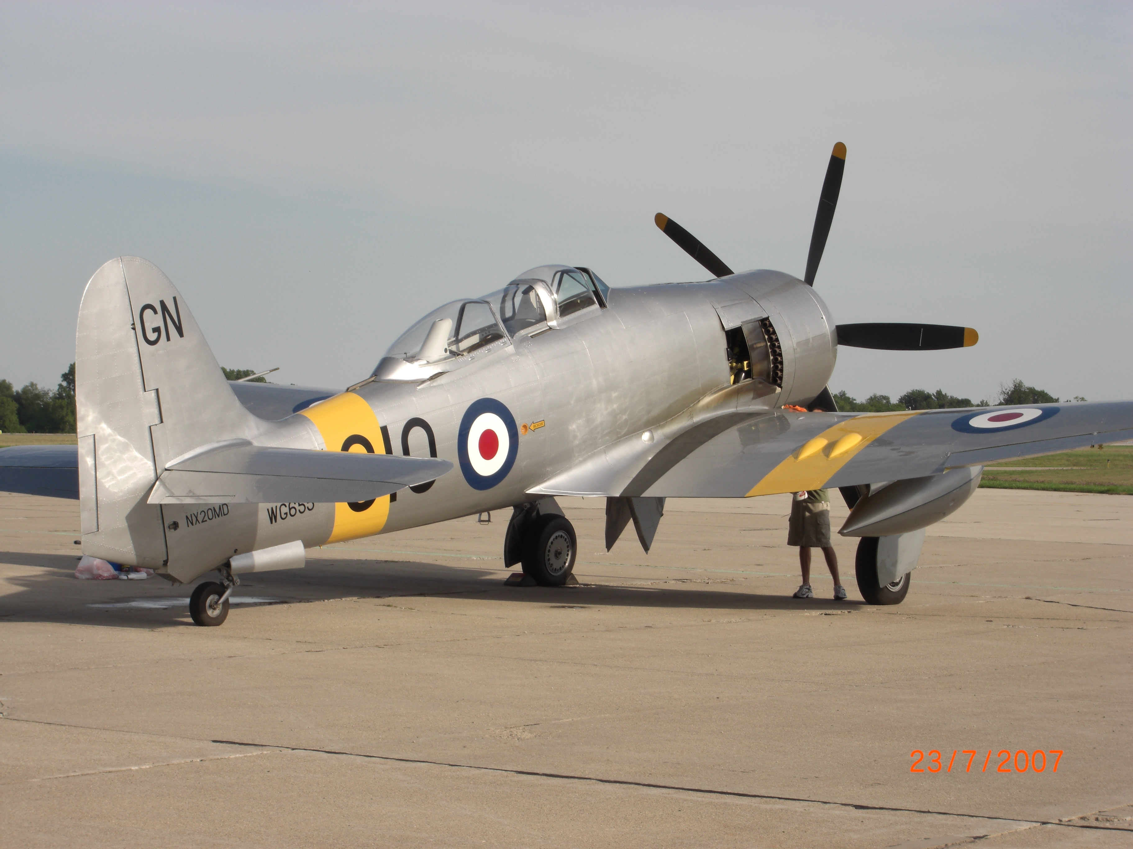 Hawker Sea Fury T20 at Oshkosh Air Show in 2007